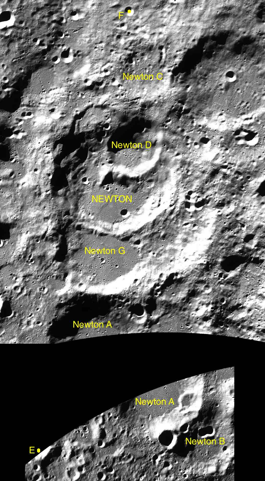 Parts of the charts LAC-137, LAC-144 used for the presentation